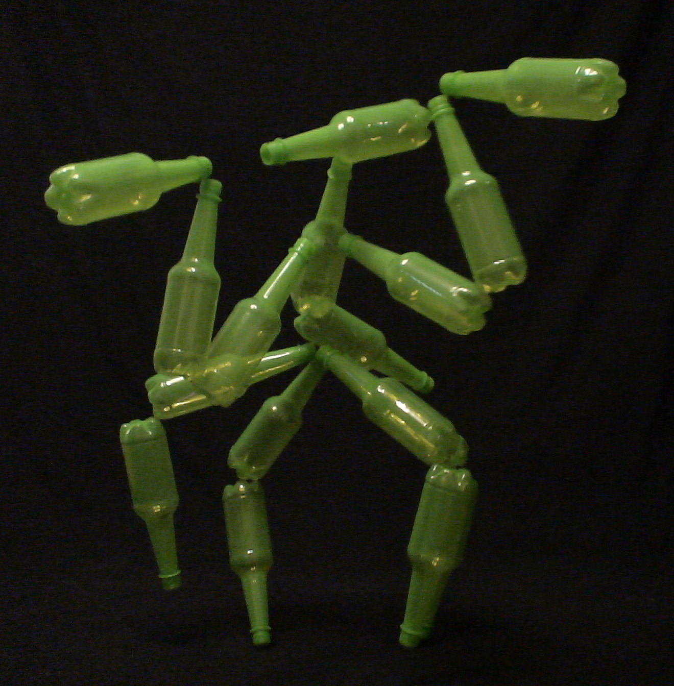 Object Puppet from EXORCISM, Nikolai Zykov Theatre, Russia. Nikolai Zykov - Soviet and Russian actor, producer, artist, designer, puppet-maker, master puppeteer, author of over 20 puppet performances. Nikolai Zykov has created and has made over 80 puppet vignettes with participation of marionettes, hand, rod, giant, radio-controlled and experimental puppets. Nikolai Zykov has performed in 35 countries around the world.